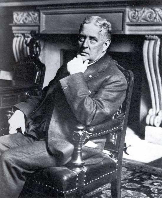 Edmund C. Tarbell when he became director of the school of art at Corcoran Gallery of Art in Washington, D.C.